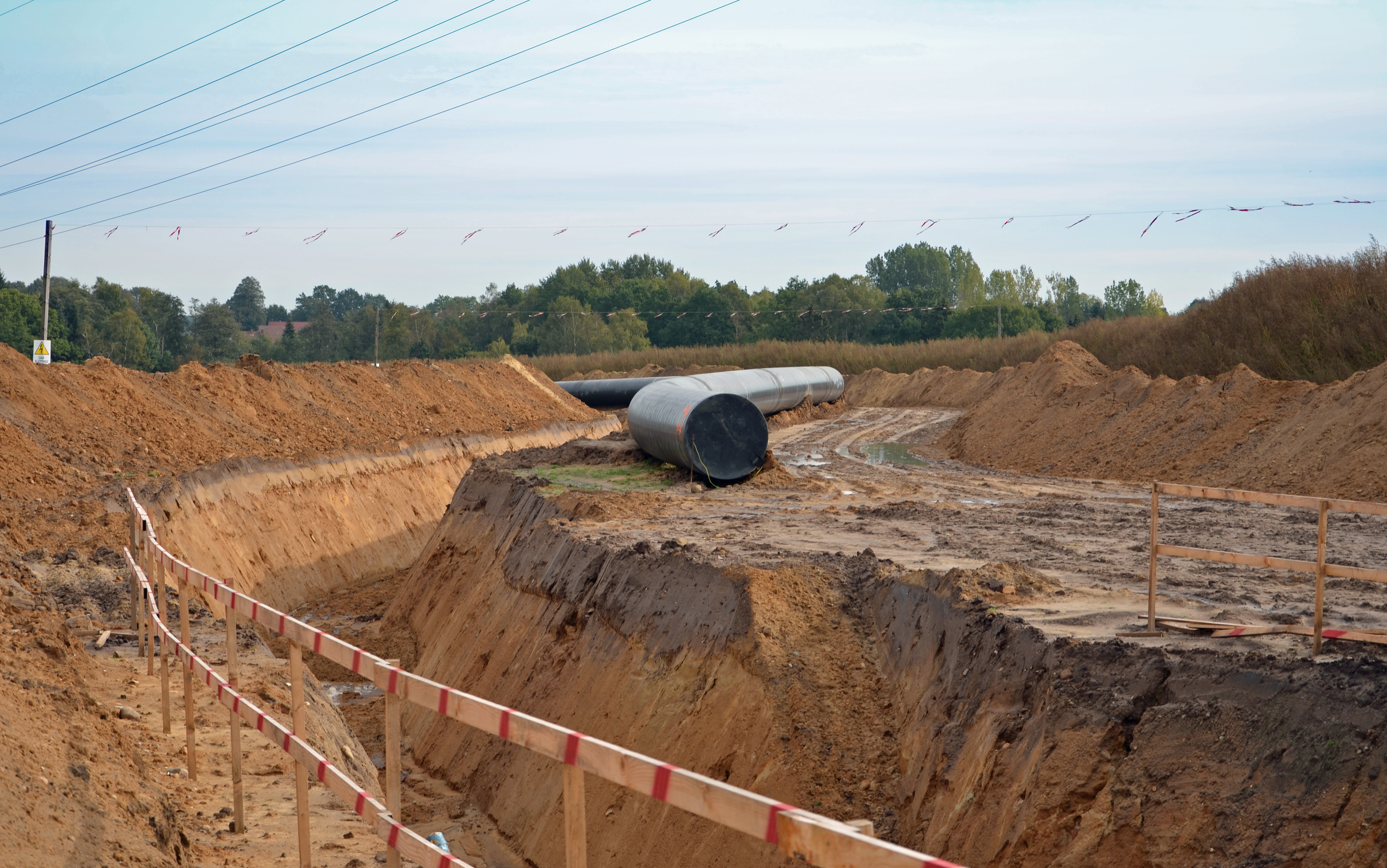 Construction of the gas pipeline Nordeuropäische Erdgasleitung (Northern European natural gas pipeLine, NEL), leading from Lubmin to Rheden. View of the building sites' section near Bassum, Lower Saxony, Germany.